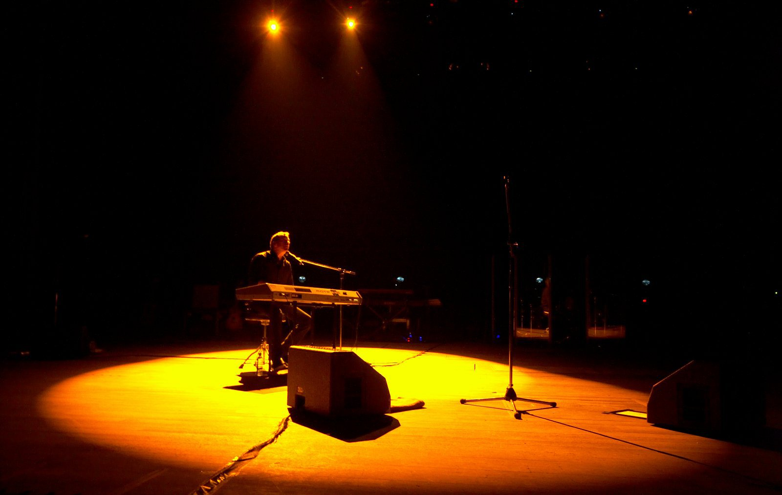 Canadian singer Garou (Pierre Garand).